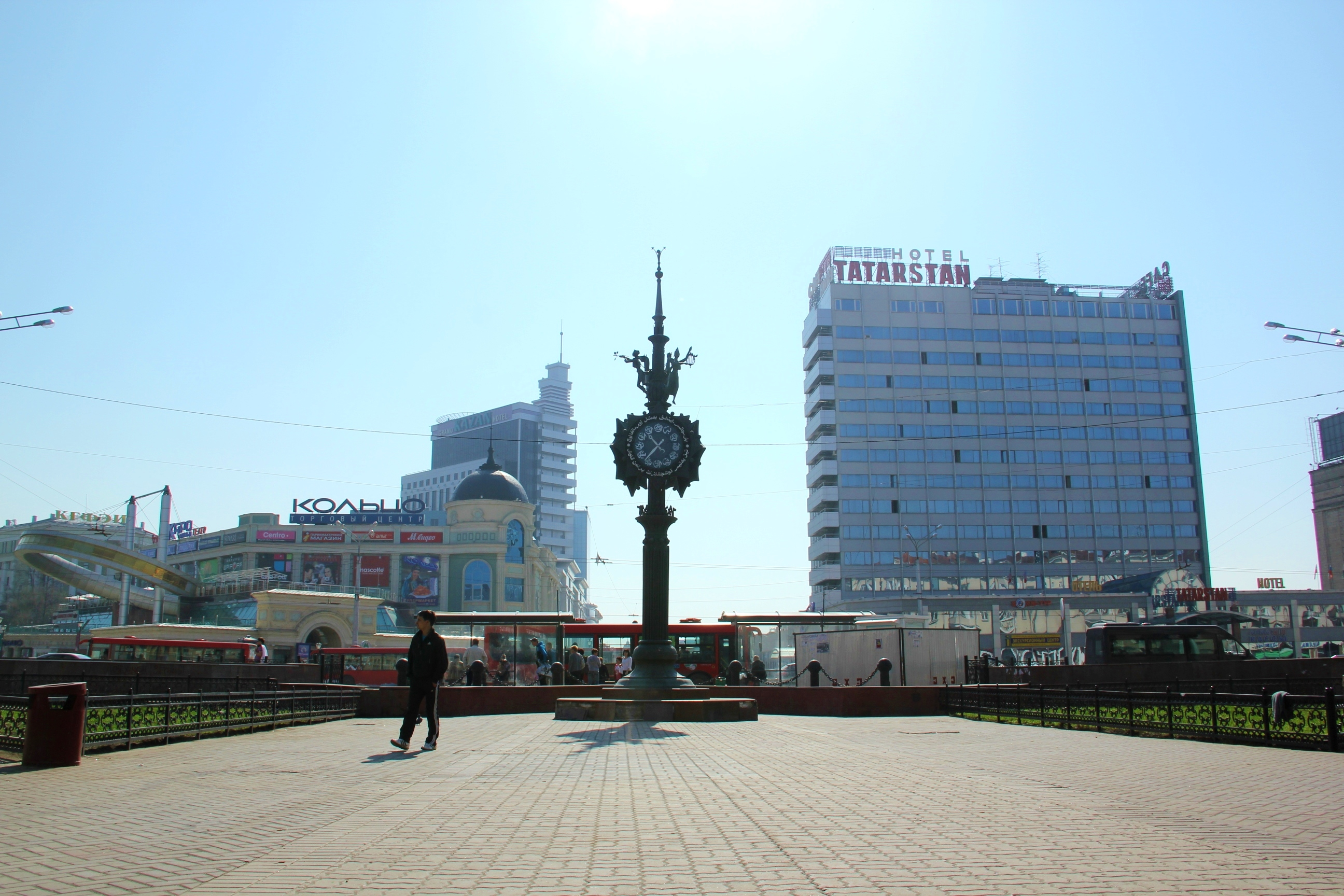 Часы на баумана